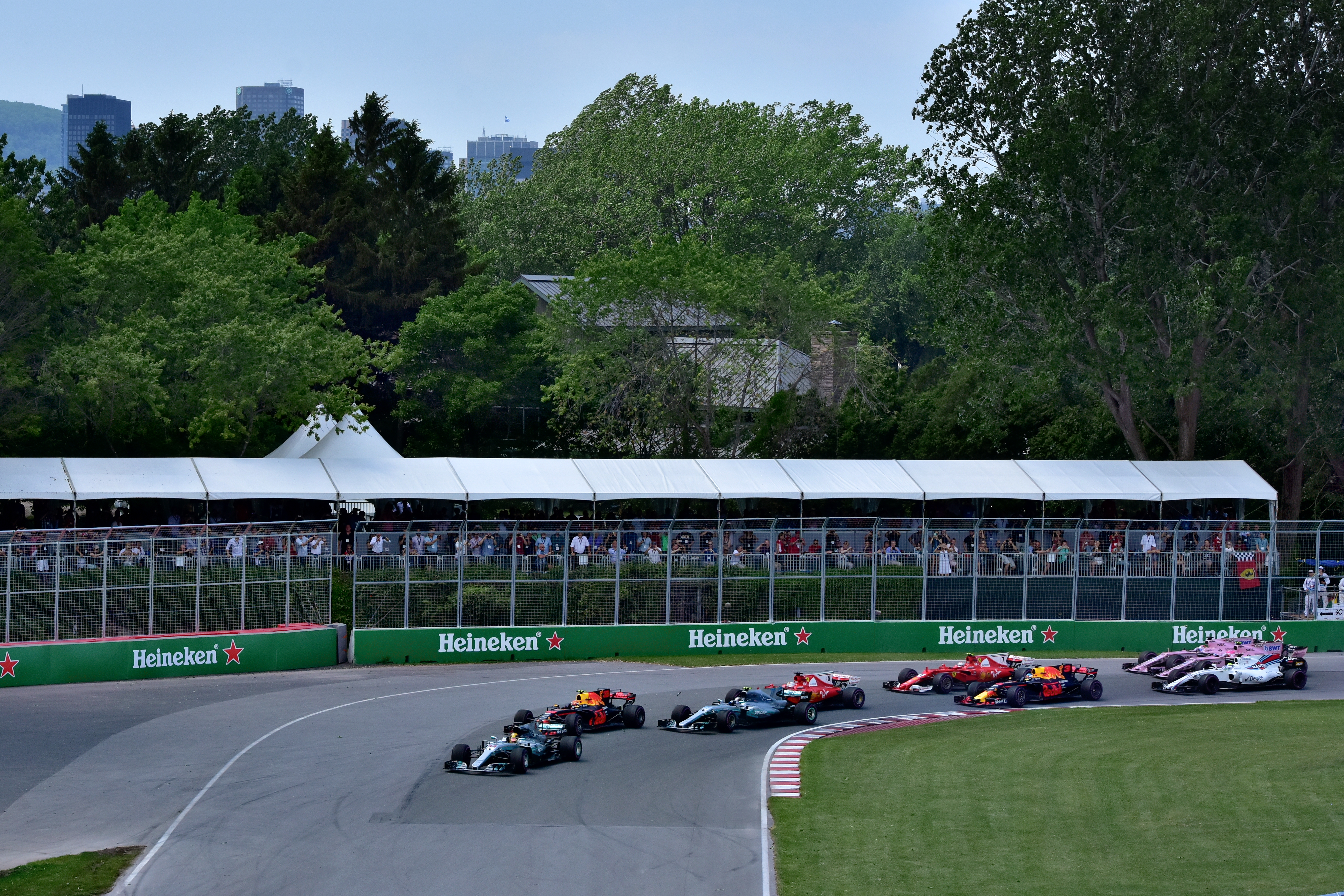 Lewis Hamilton takes the lead. Max Verstappen taking second place after a fiery start, also broke Sebastian Vettel's front wing (a piece can be seen in this photo). The two Force Indias side by side and will continue throughout the whole race.